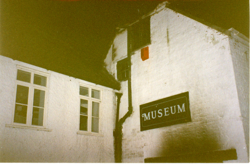 It shows smoke damage above the door lintel.